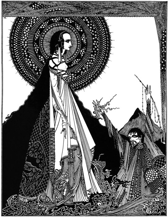 Illustration for Edgar Allan Poe's story "Ligeia" by Harry Clarke (1889-1931), published in 1919.